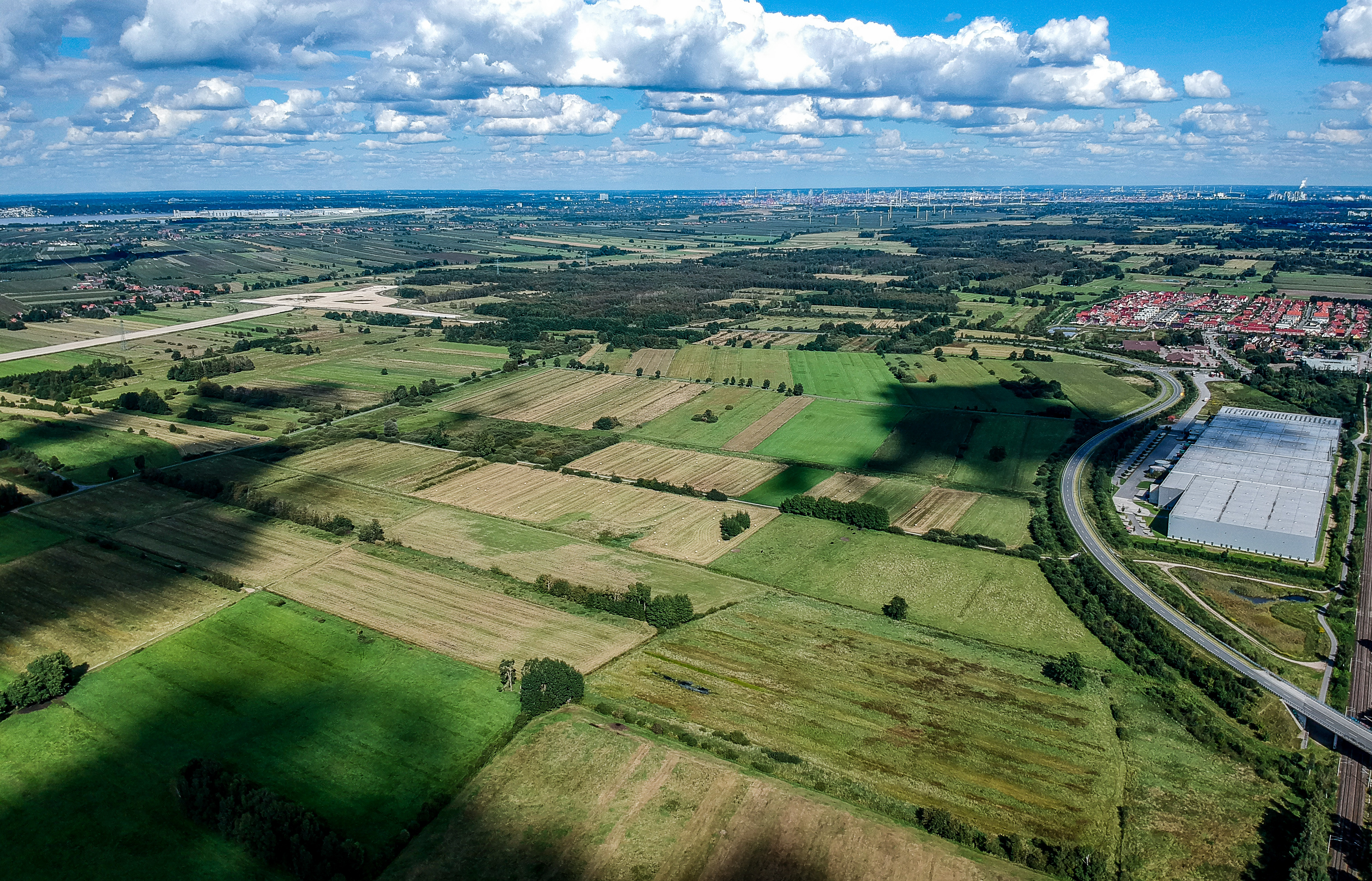 Rübker Moor